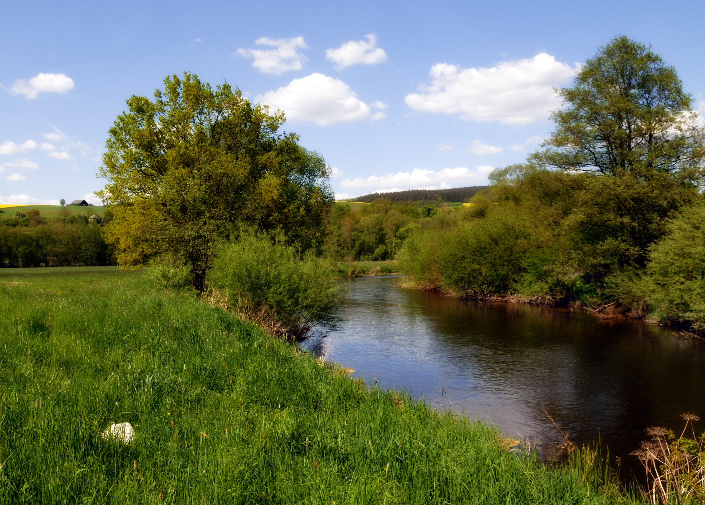 This image shows the river Flöha in the town Flöha, Germany.